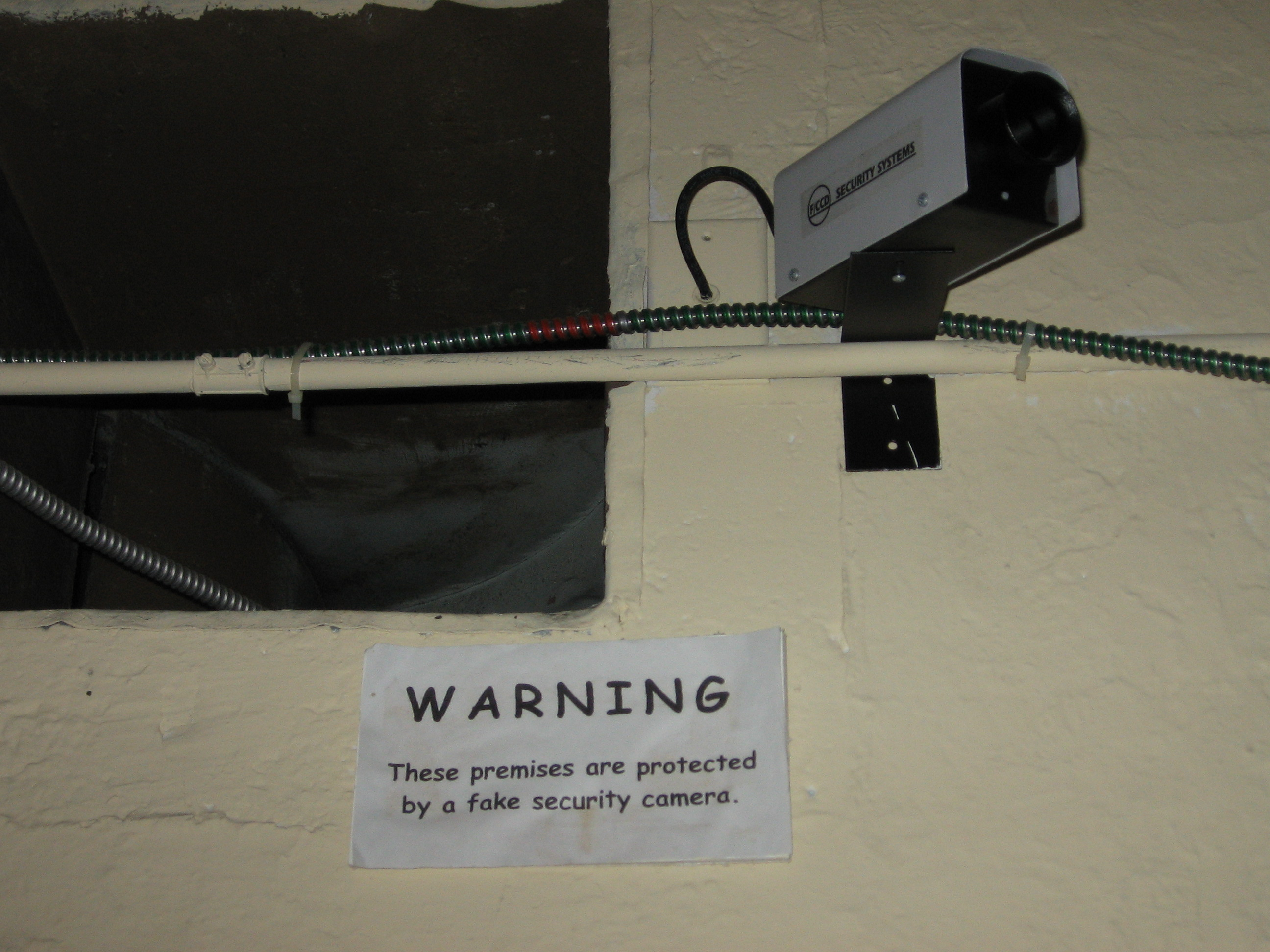 Fake security camera in the Museum of Bad Art in Dedham, Massachusetts